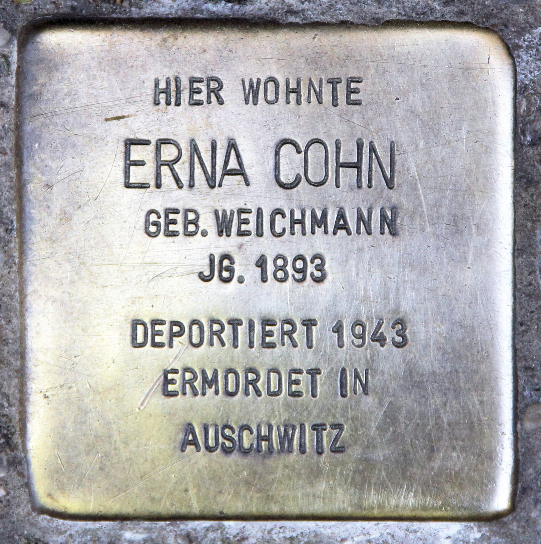 "stumbling block", Erna Cohn, Niebuhrstraße 72, Berlin-Charlottenburg, Germany Koordinate:52°30′15″N 13°18′54″E / 52.50417°N 13.315°E